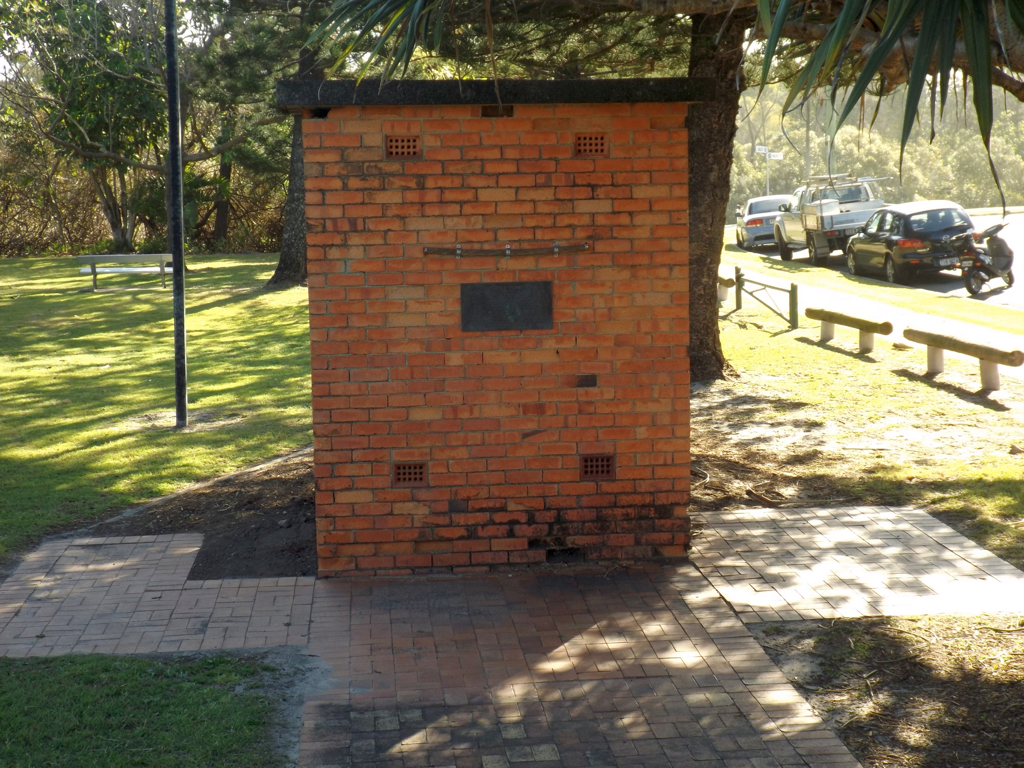 Photo of the Southport Cable Hut, Main Beach, Gold Coast City, Queensland, Australia.